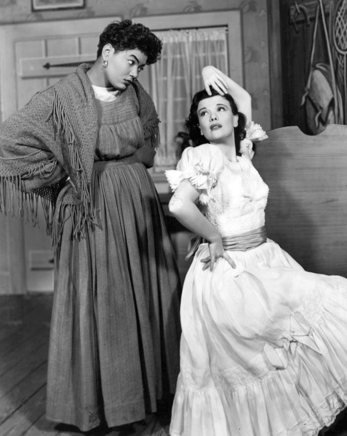 Photo of Pearl Bailey and Nanette Fabray in a scene from the 1950 Broadway musical Arms and the Girl.